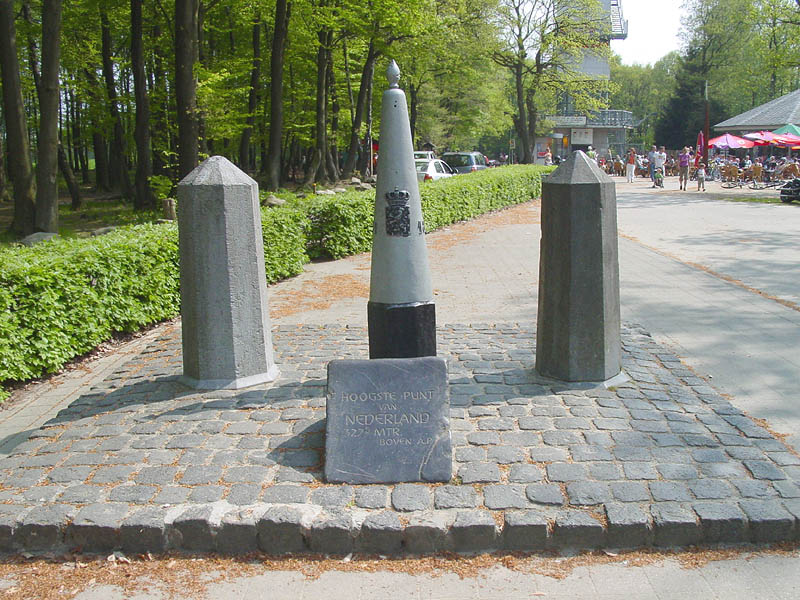 The highest point of The Netherlands, 322.5m, at Vaalserberg.